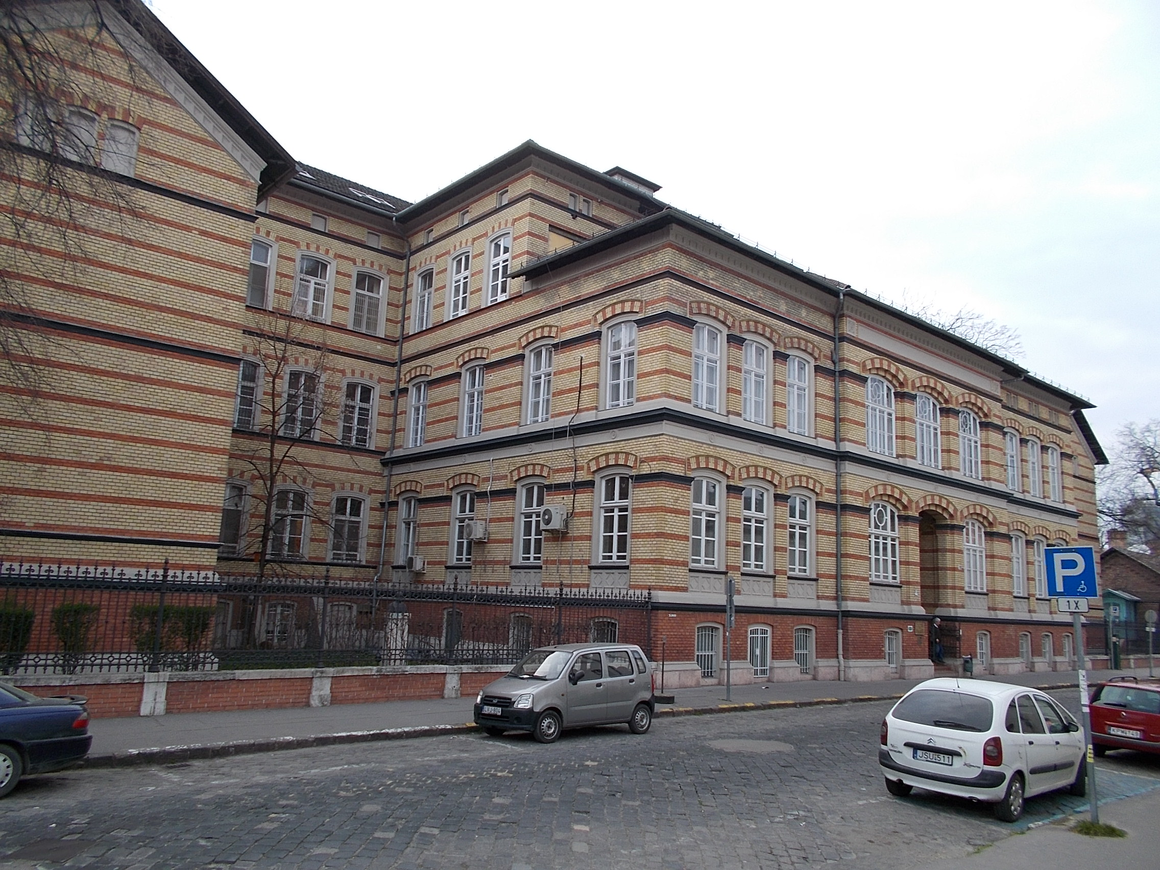 Semmelweis University 1st Department of Paediatrics. - 53 Bókay Street, Corvin neighbourhood, Budapest District VIII.